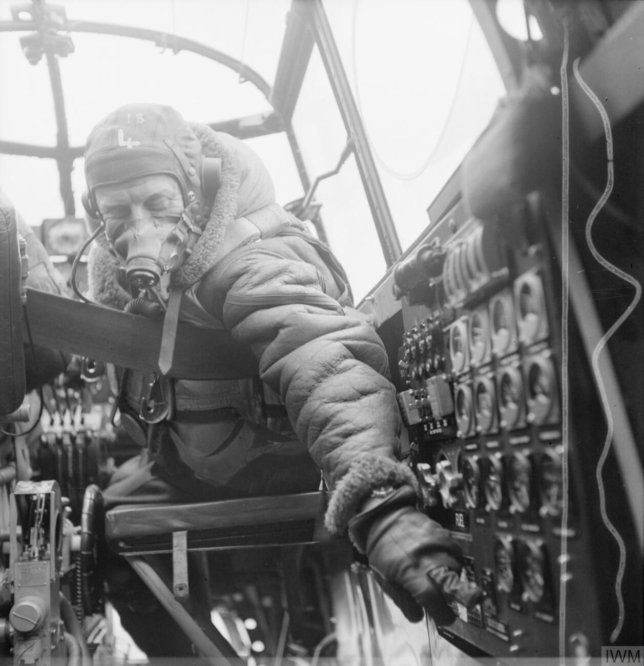 IWM caption : Flying Officer J B Burnside, the flight engineer on board an Avro Lancaster B Mark III of No. 619 Squadron RAF based at Coningsby, Lincolnshire, checks settings on the control panel from his seat in the cockpit.